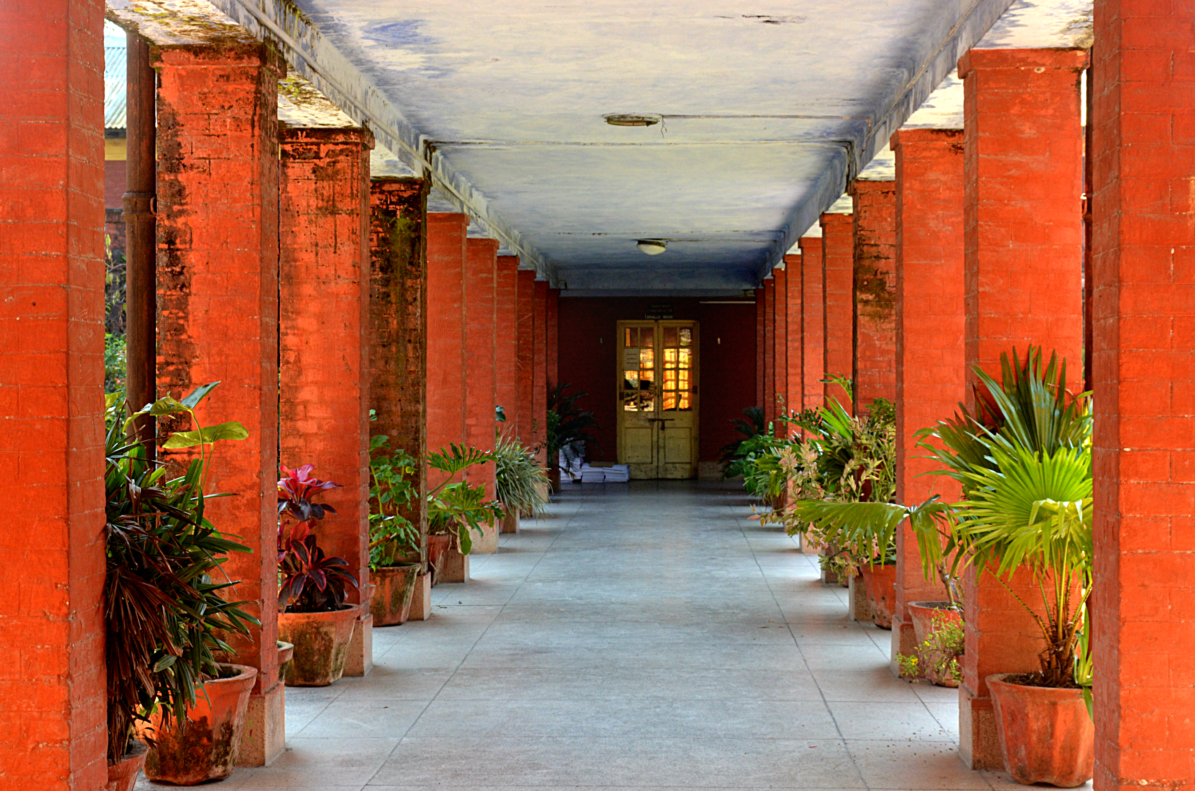 Central Braille Press was set up in Dehradun, Uttarakhand in 1951, after independence, by the Government of India, Ministry of Welfare to make braille literature available to the blind. It is the first braille press of India. (photo - Jim Ankan Deka)